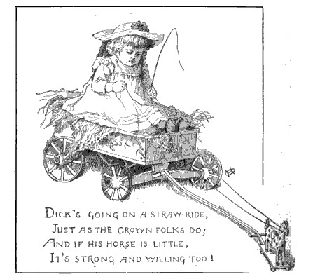 (Removed after reusableart request.)